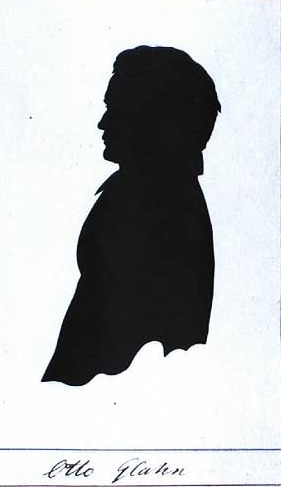 Otto Michael Glahn (1813-1879), Danish master carpenter and architect